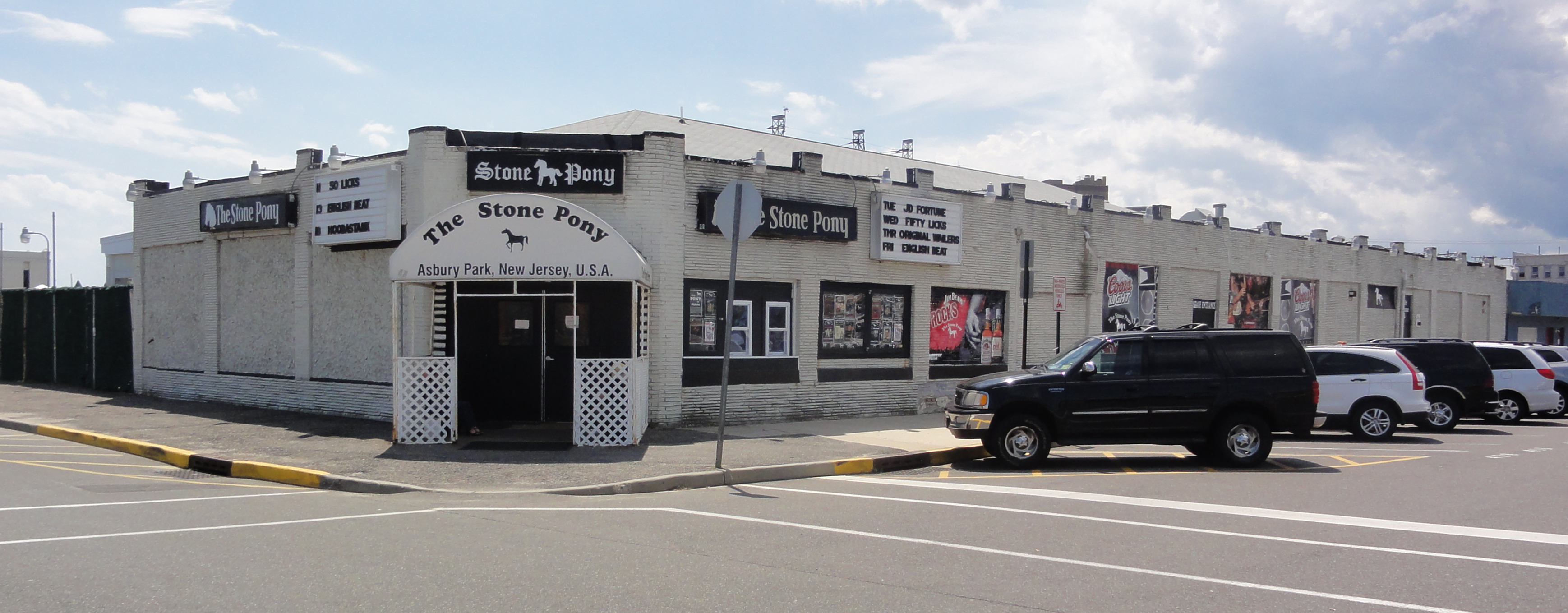 Music venue the Stone Pony in Asbury Park 2012